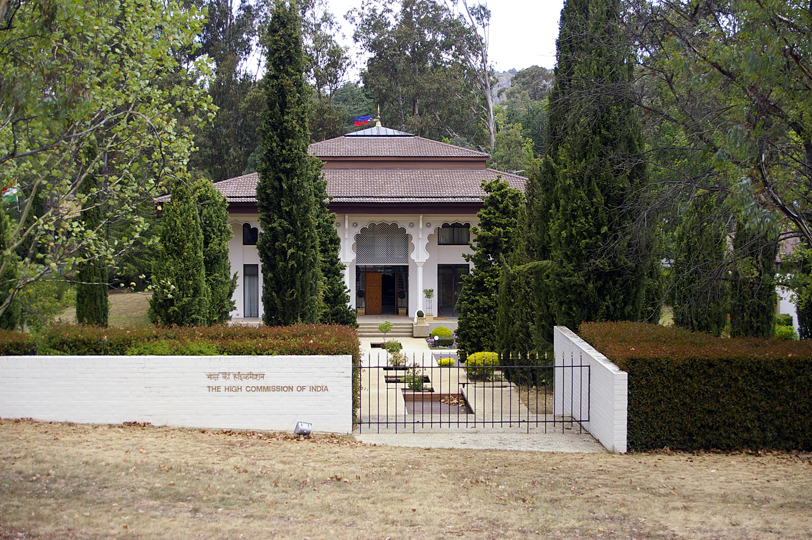 High Commission of India located in the Canberra suburb of Yarralumla, Australian Capital Territory, Australia.